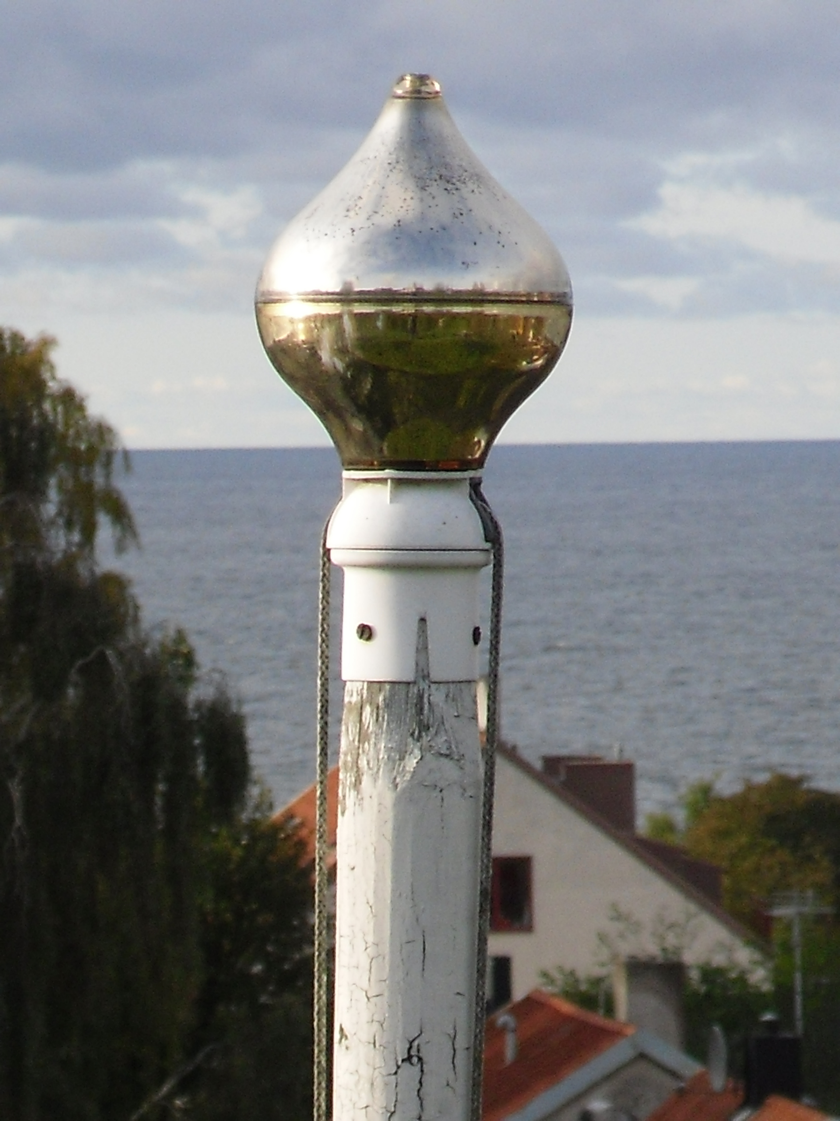 Flagpole finial on top of a traditional Swedish flagpole in Visby, Sweden.